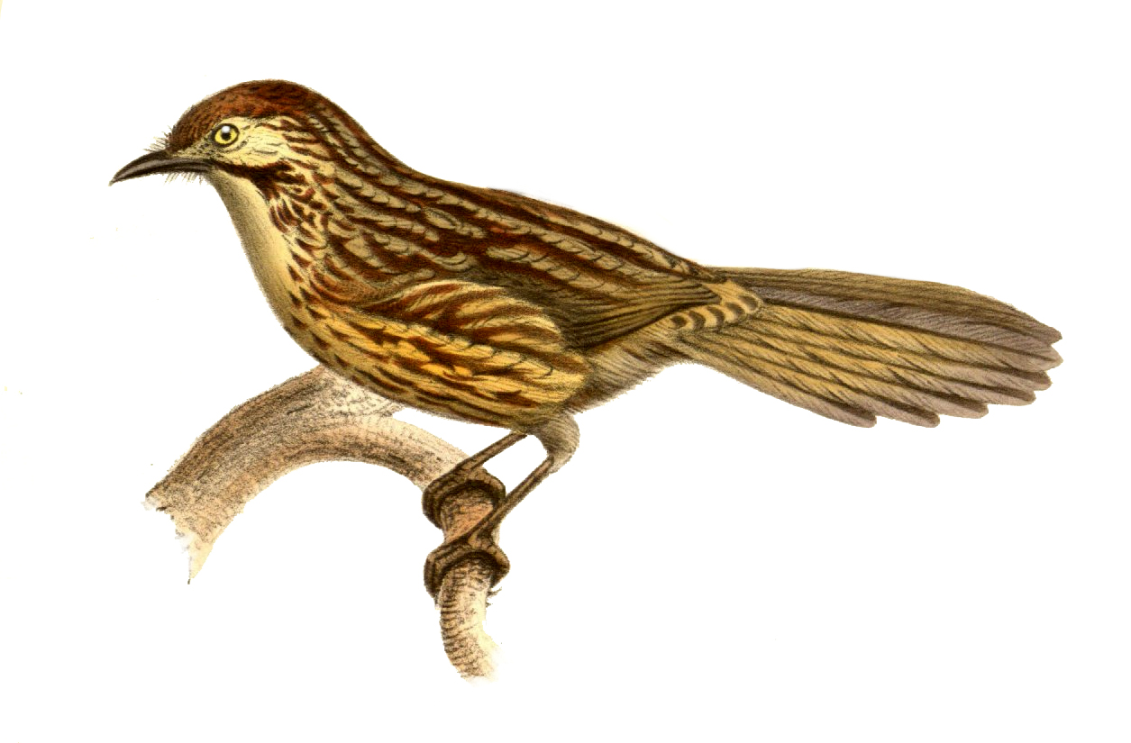 Babax lanceolatus